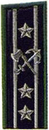 Insignia officials of the Ministry of Railways of the Russian Empire. Rank VII